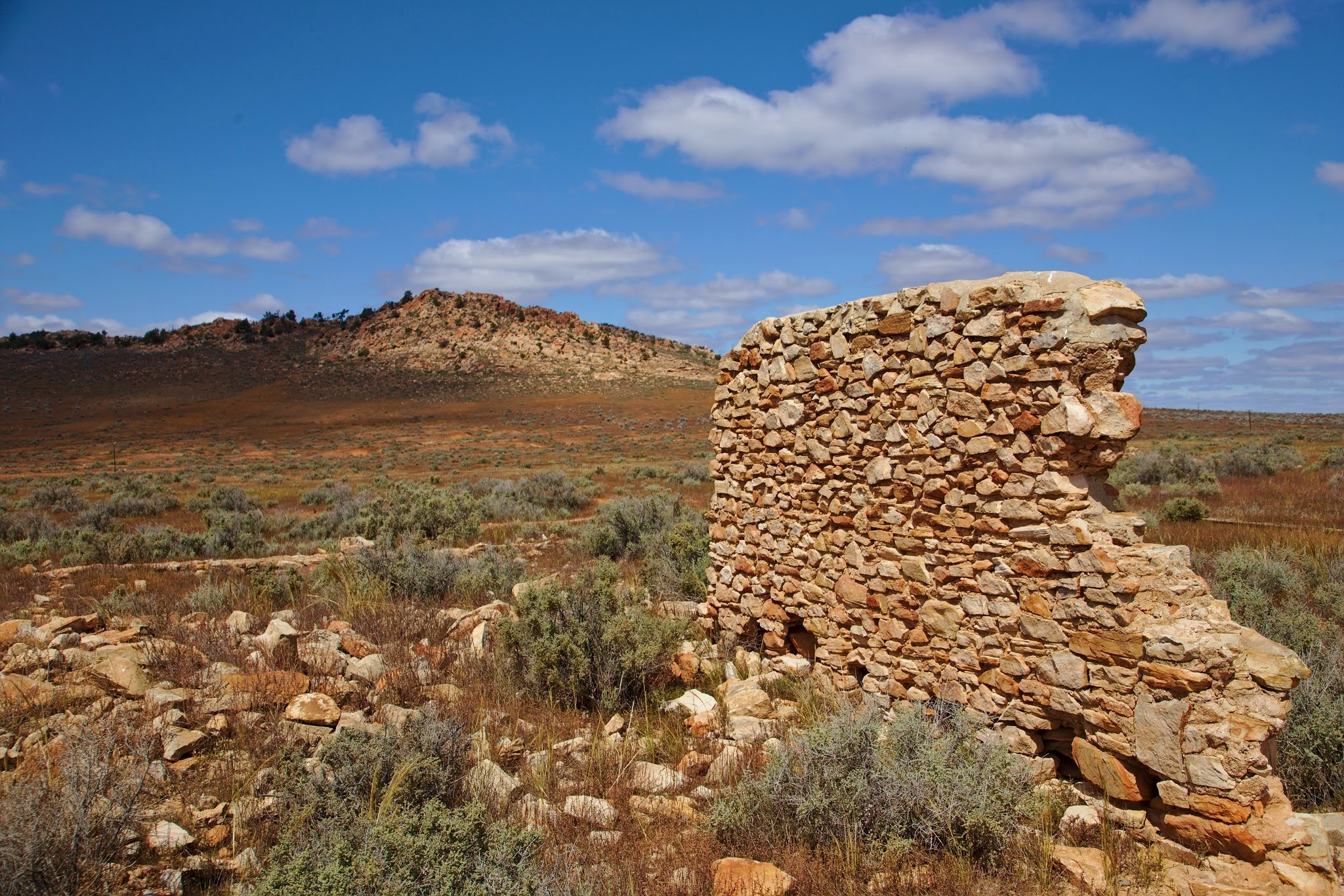 Ruined half-built township of Simmonston